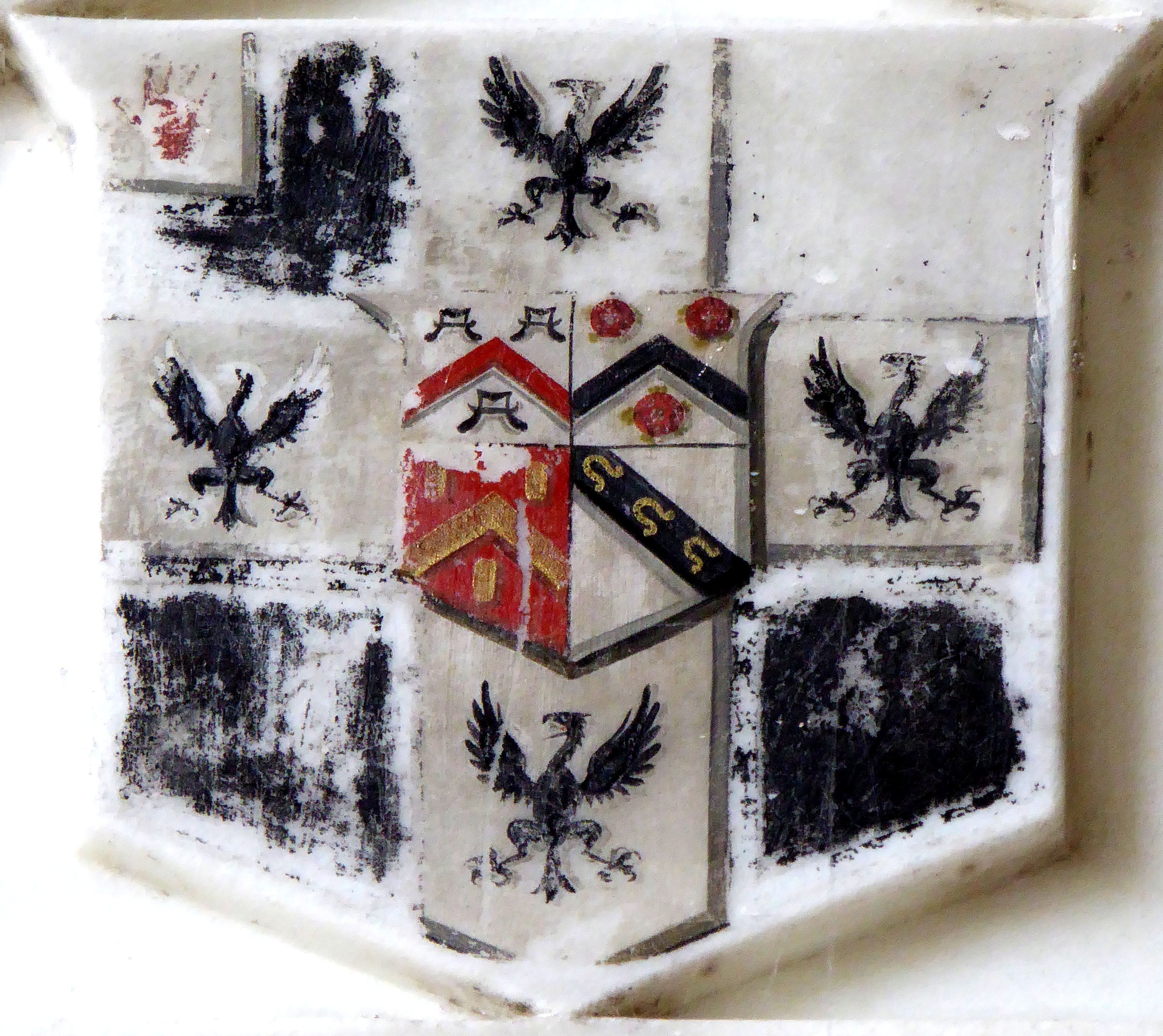 Detail from Mural monument in the Buller Chapel of St Mary's Church, Brixham, to the judge Sir Francis Buller, 1st Baronet (1746-1800) of Churston Court in the parish of Churston Ferrers, of nearby Lupton in the parish of Brixham, and of Prince Hall on Dartmoor, all in Devon. At top is shown this shield of the arms of Buller (Sable, on a cross argent quarter pierced of the field four eagles displayed of the first) with a baronet's canton of the Red Hand of Ulster, with inescutcheon of pretence of Yarde (of 4 quarters: 1: Argent, a chevron gules between three water bougets sable (Yarde); 4: Argent, on a bend sable three horse-shoes or (Ferrers of Churston-Ferrers)) for his heiress wife Susanna Yarde (1740–1810), only daughter and sole heiress of Francis Yarde (1704–1750) of Ottery St Mary in Devon, the fifth son of Edward Yarde (1669–1735), of Churston Court in the parish of Churston Ferrers, a Member of Parliament for Totnes in Devon 1695–1698. Susanna was the niece and heiress of John Yarde (1702–1773) of Churston Court.